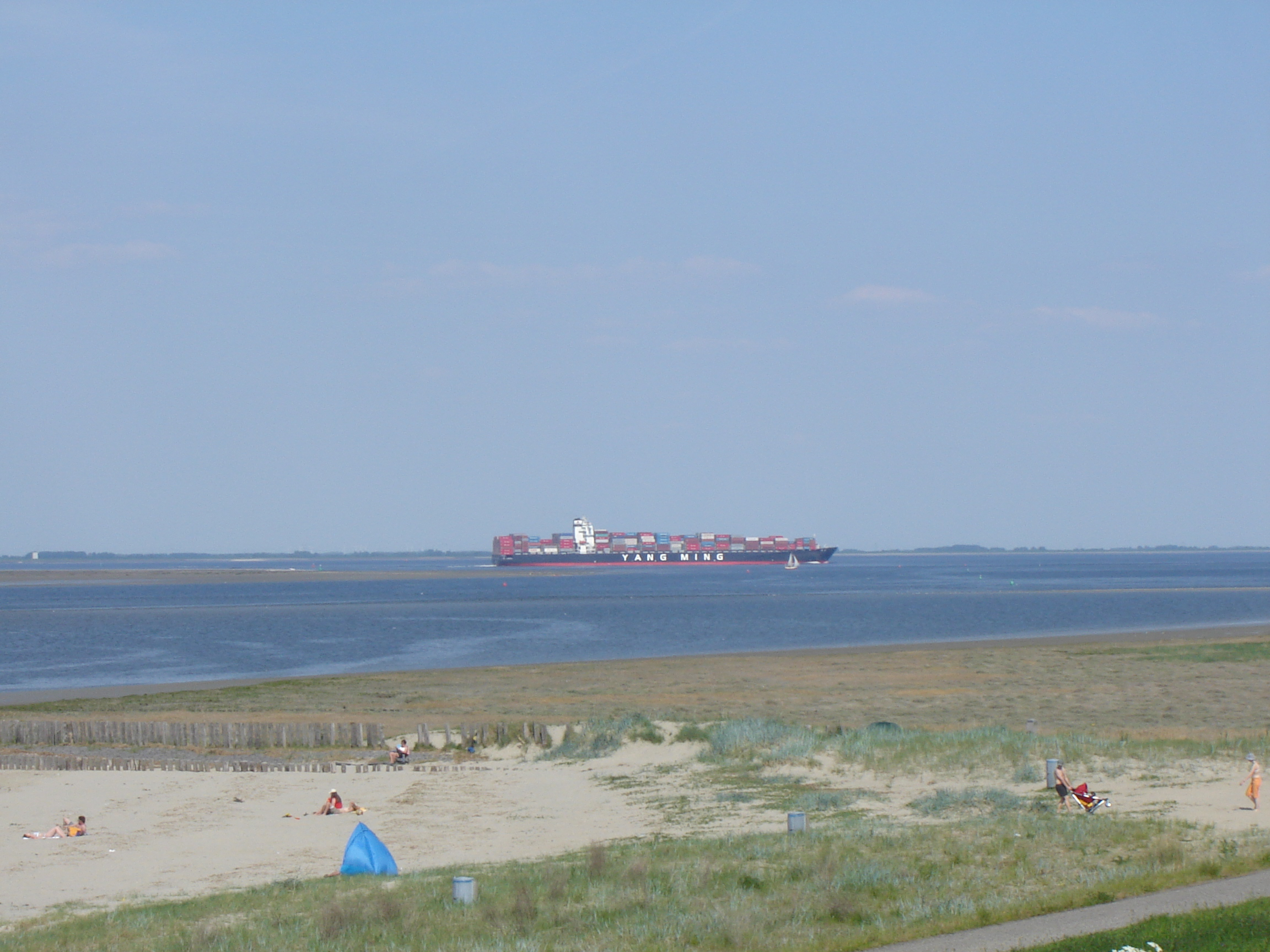 Westerschelde (Western Scheldt) with sandbanks; view from Hoofdplaat. Hoofdplaat, Sluis, Zeeland, Netherlands